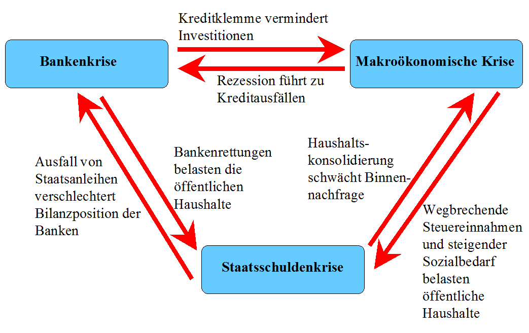 Interdependence between european sovereign-debt crisis, financial crisis and economic crisis. Inspired by sachverstaendigenrat-wirtschaft and Jay C.Shambaugh, The Euro´s Three Crisis, Brookings Papers on Economic Activity, Spring 2012